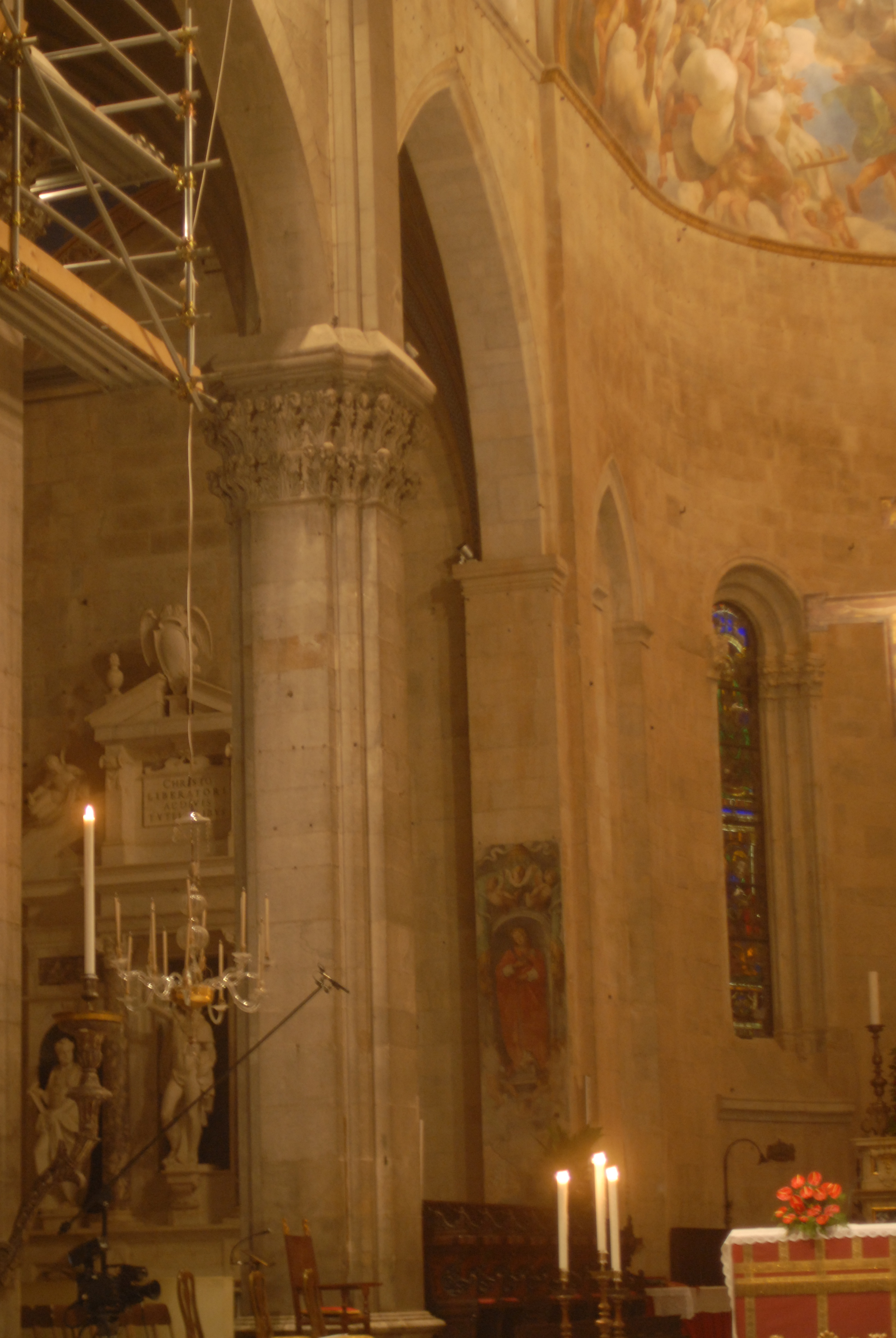 Left side of the nave of the Cathedral of Lucca